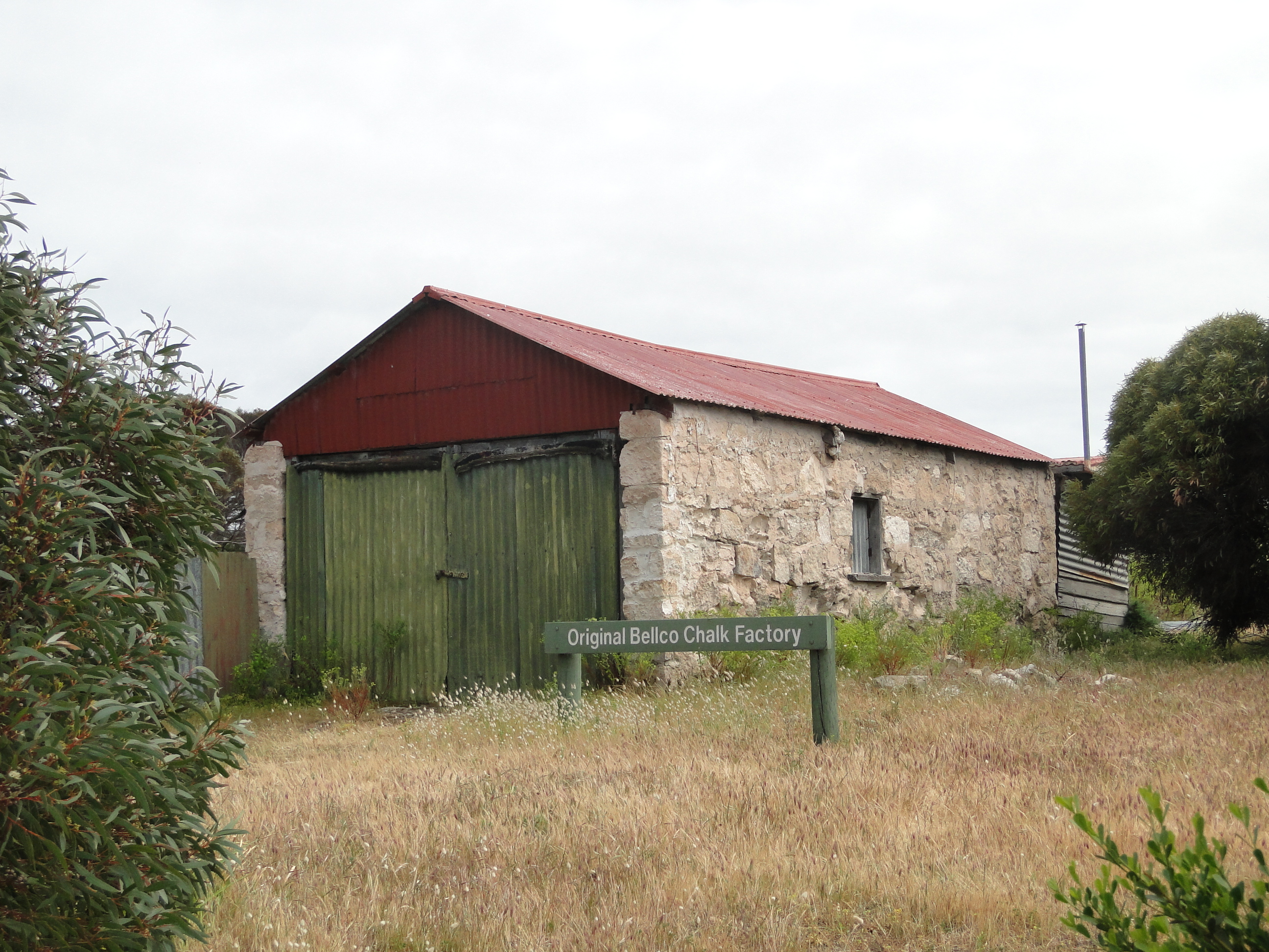 The Bellco Chalk Factory at Inneston, South Australia.